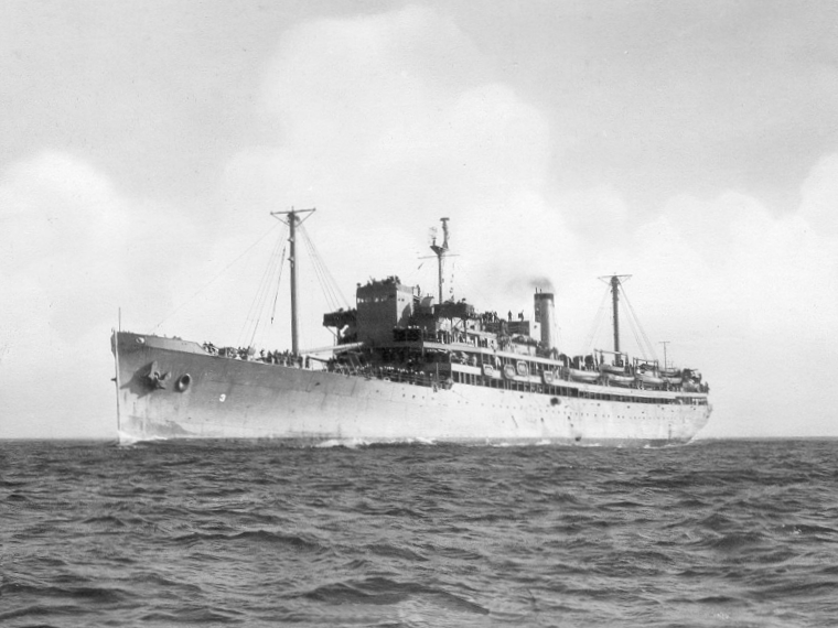 The U.S. Navy destryoyer tender USS Dobbin (AD-3) in 1941.